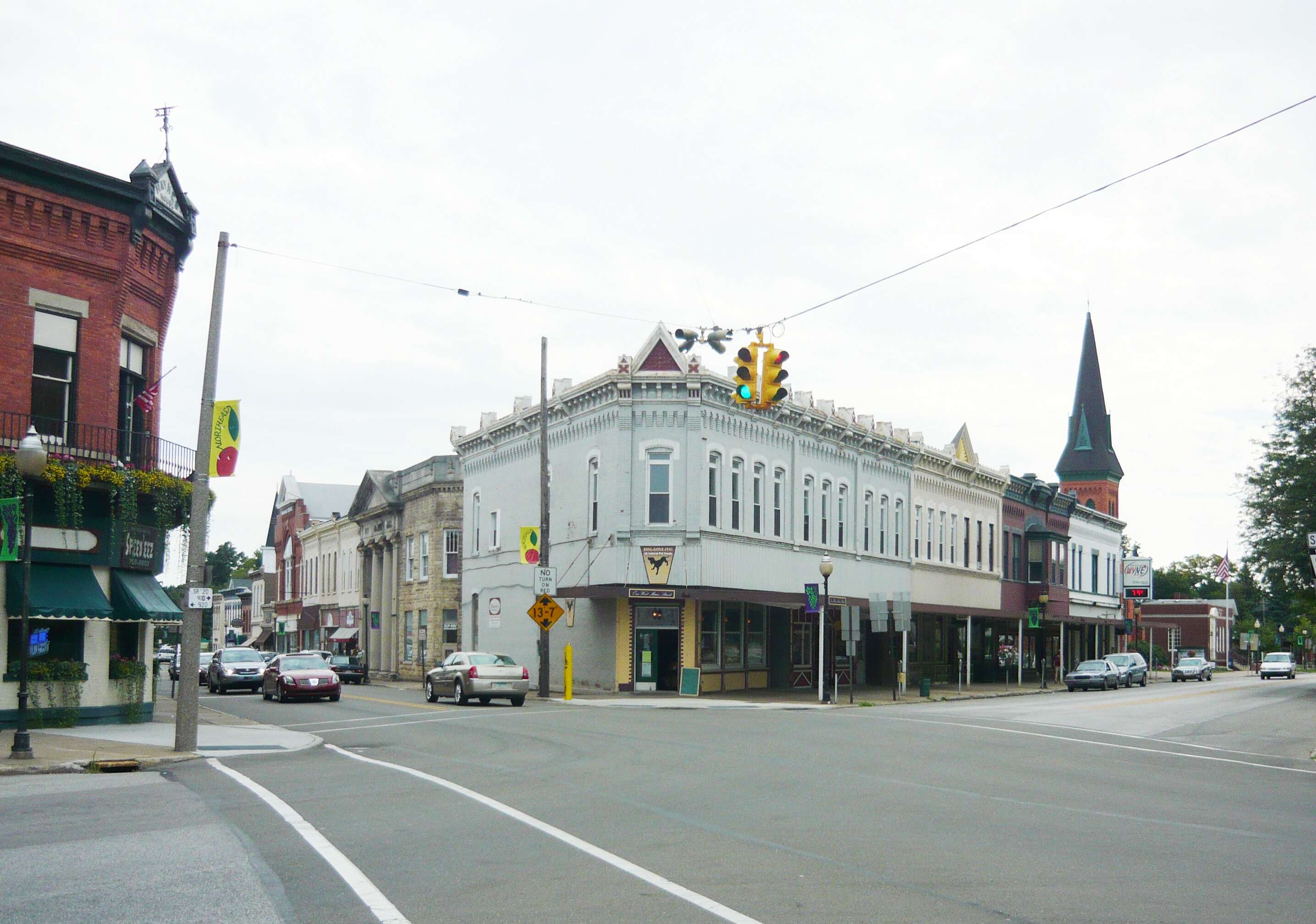 Corner of Lake Street (to the left) and Main Street (to the right) in the Borough of North East, Erie County, Pennsylvania.